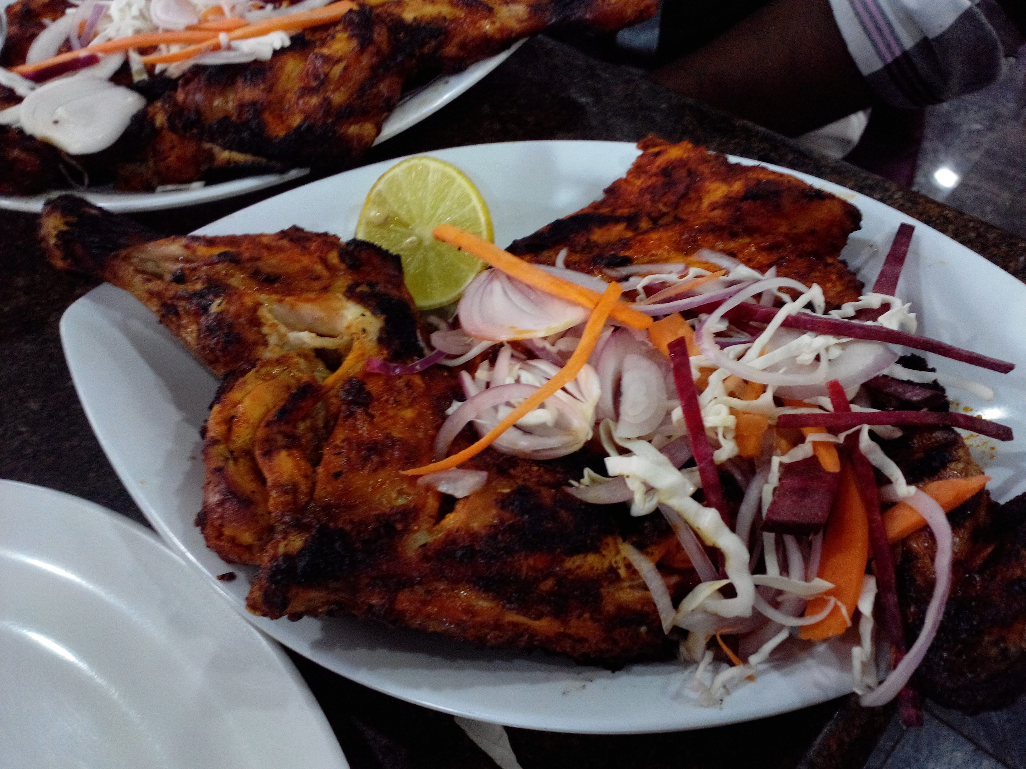 Delicious chicken dish